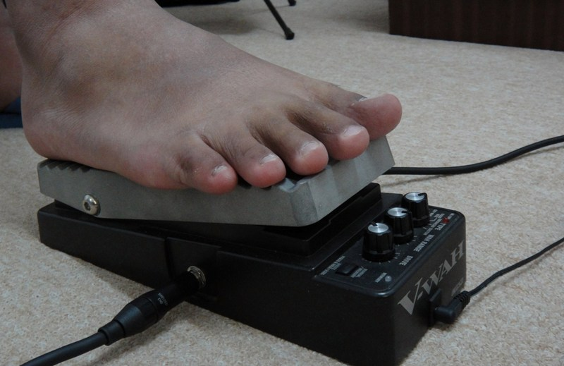 ito ay wah pedal